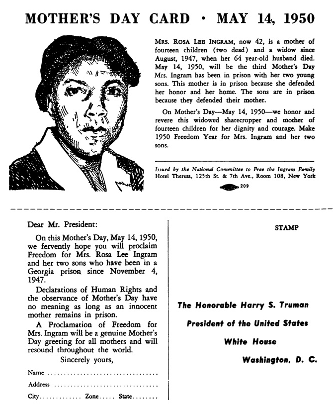 Mother's Day Card to President Truman, part of a Civil Rights Congress campaign to free Rosa Lee Ingram (and her two sons).